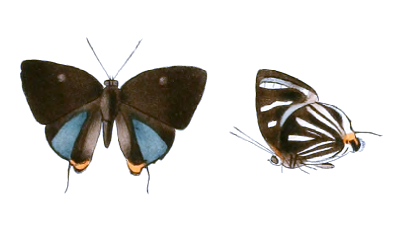 Upperside (left) and underwing of male Thereus pedusa